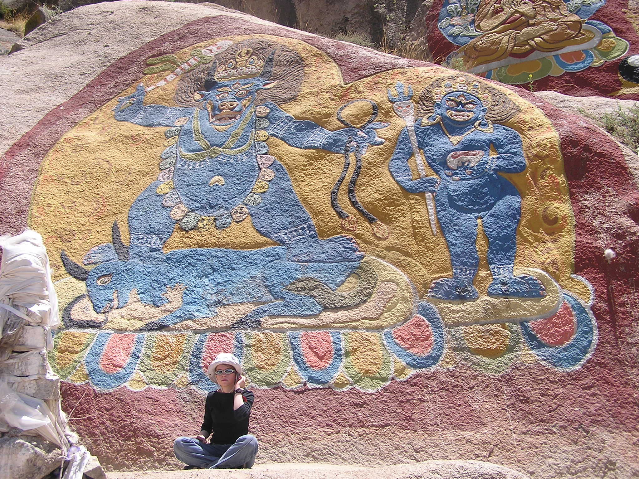 Carved and painted stone reliefs — near Sera Monastery, Tibet.